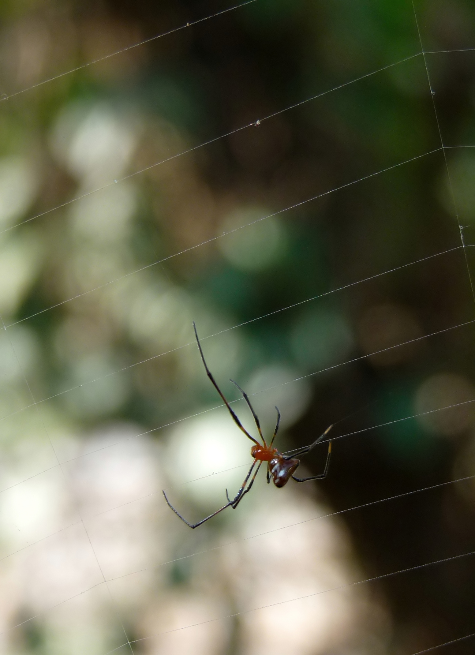 Argyrodes flavescens, Red and Silver Dewdrop Spider, is a species of spider belonging to the family Theridiidae. It is widely distributed in Southeast Asia and is also found in India and Sri Lanka. Like other members of this genus, this species is a kleptoparasite, living on the web of a larger spider and feeding off its prey. A. flavescens most commonly inhabits the webs of araneids and nephilids. Here she is found on the web of a Argiope pulchella. This is a very small spider with a length (excluding legs) of around 3 mm. The legs are black and the markedly domed and very shiny abdomen is red-brown with white spots.